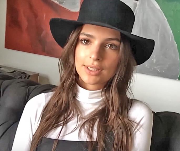 Screenshot from 2 minute interview with American model and actress Emily Ratajkowski by Harriet Verney for LOVE (magazine)